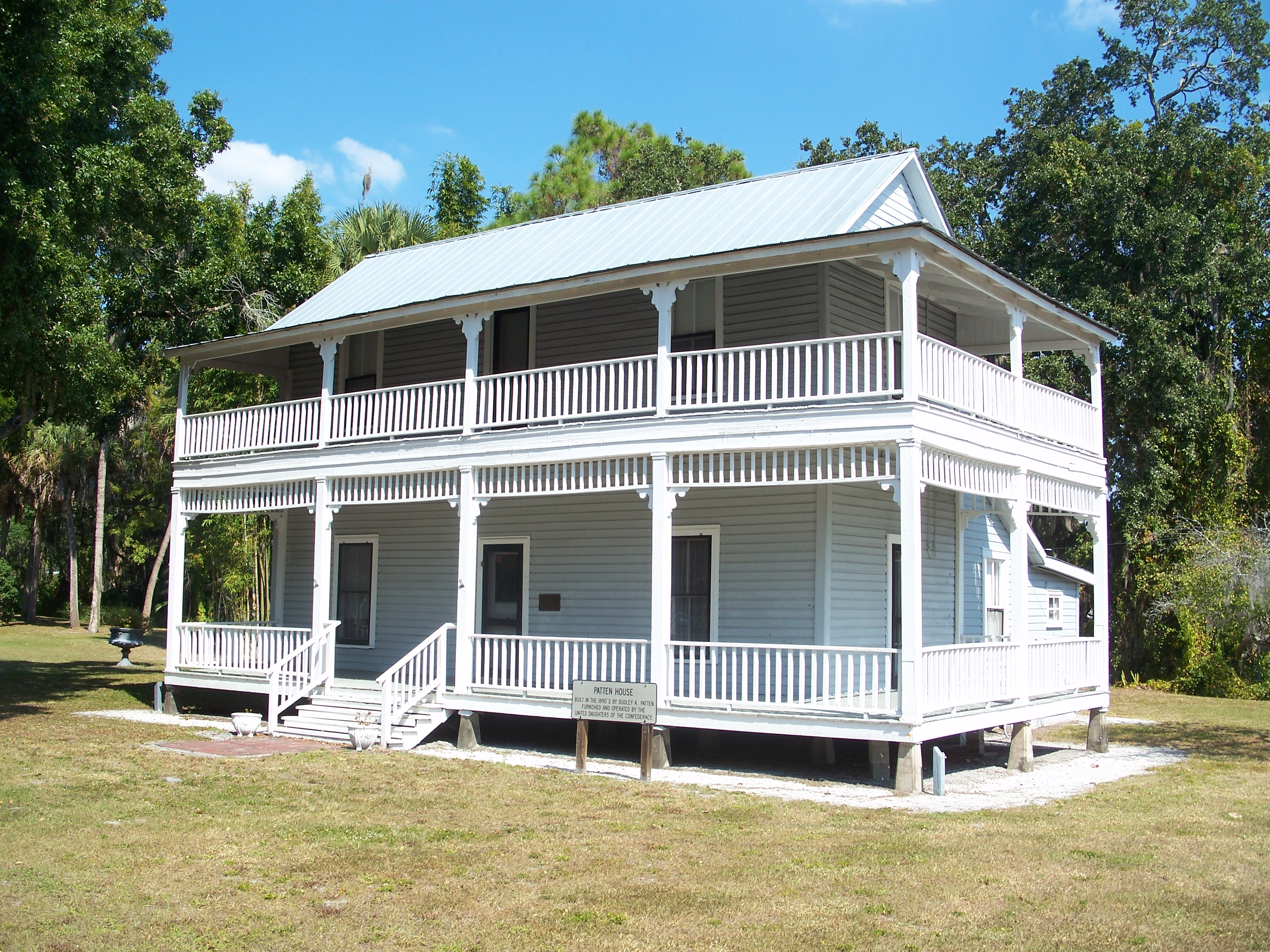 Gamble Plantation Historic State Park: Patten House